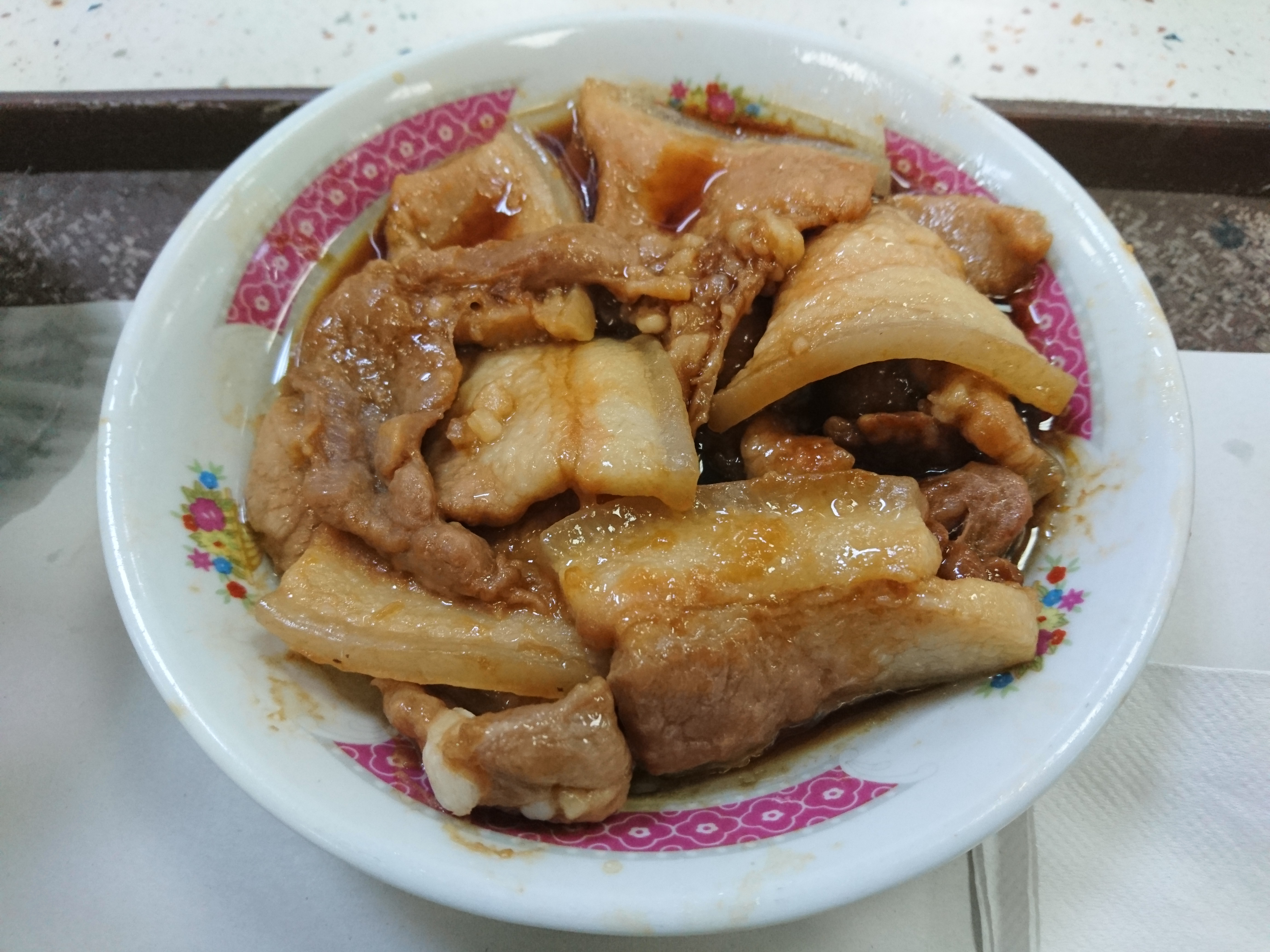 Steamed Pork Belly with Shrimp Paste